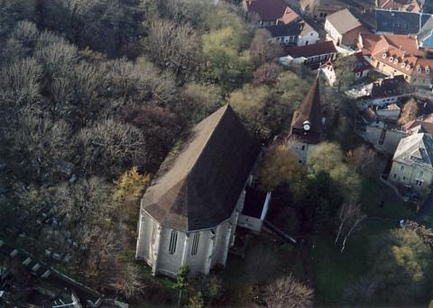 Miskolc, Hungary, aerialphotography